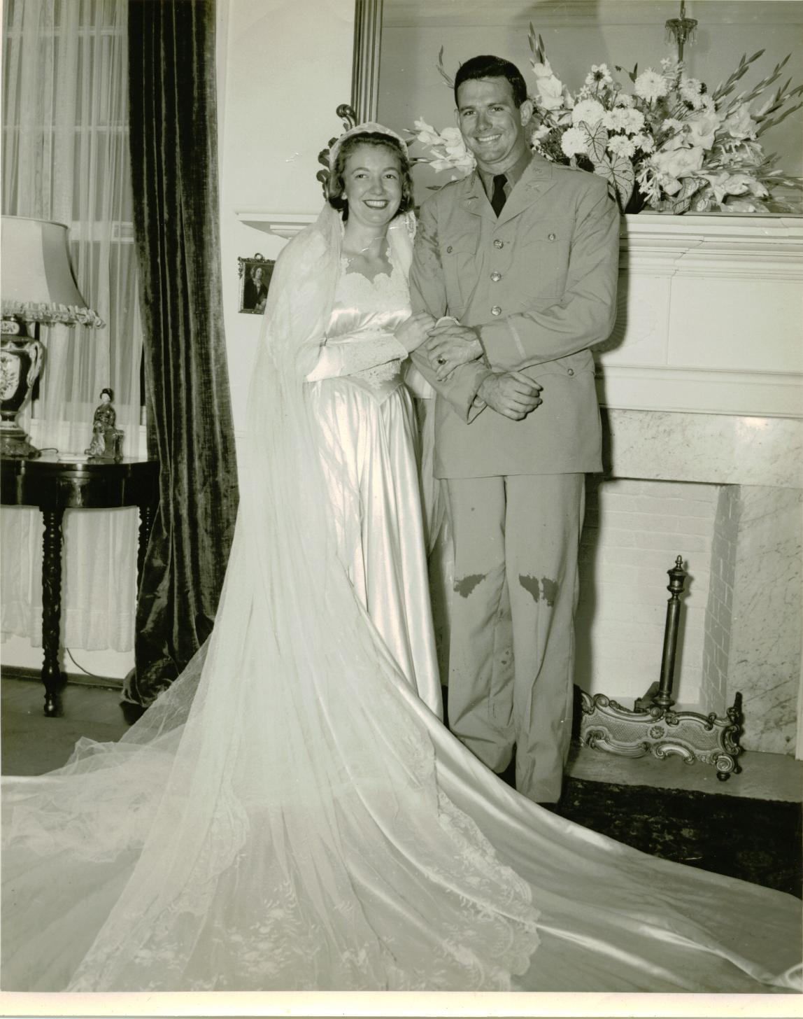 William B Caldwell III Marriage 1949